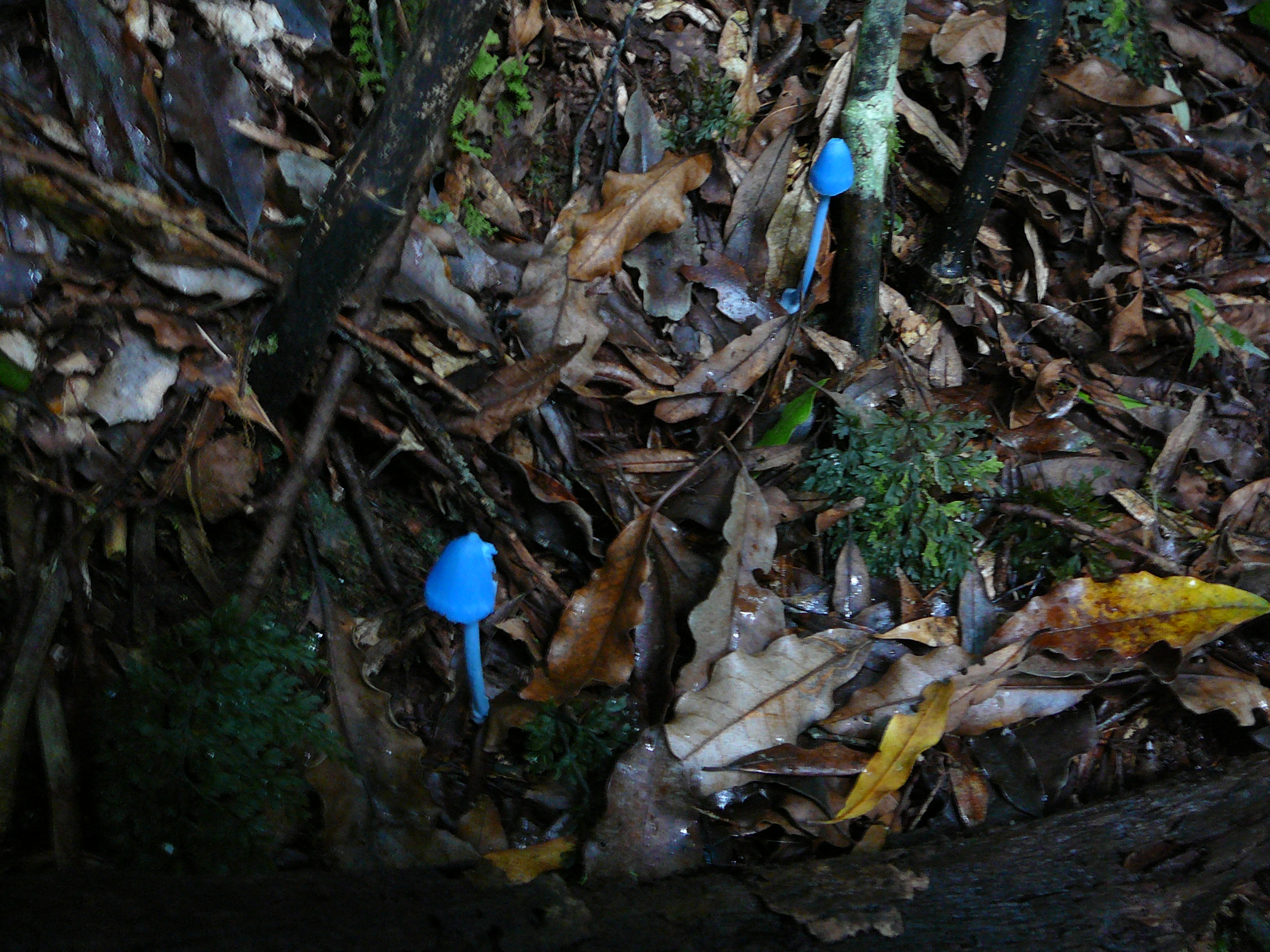 the tracks from Rangitoto station have different colour codings